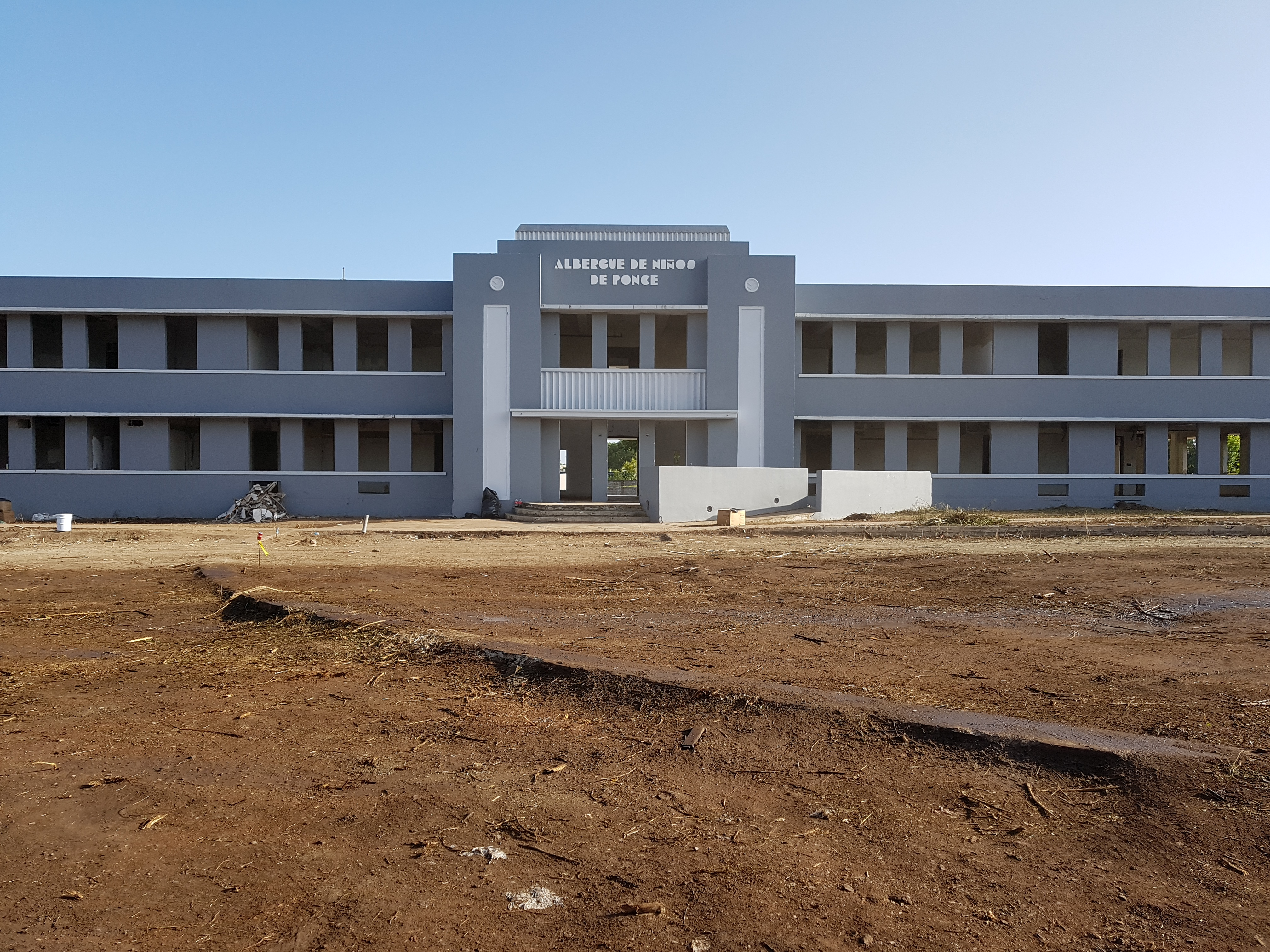 Albergue de Niños de Ponce, Barrio Canas, Ponce, PR, durante reconstrucción en Sept 2019